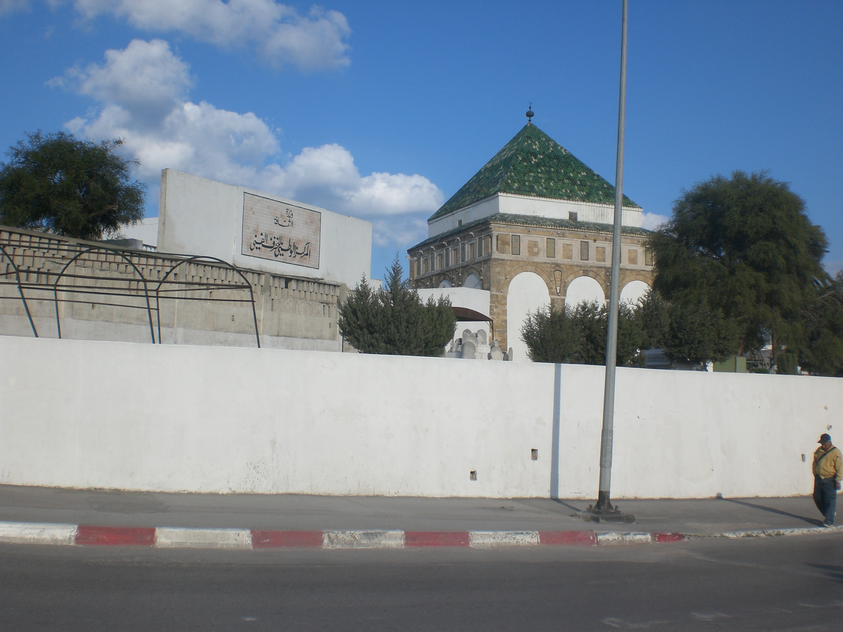 Museum of ceramic-Tunis